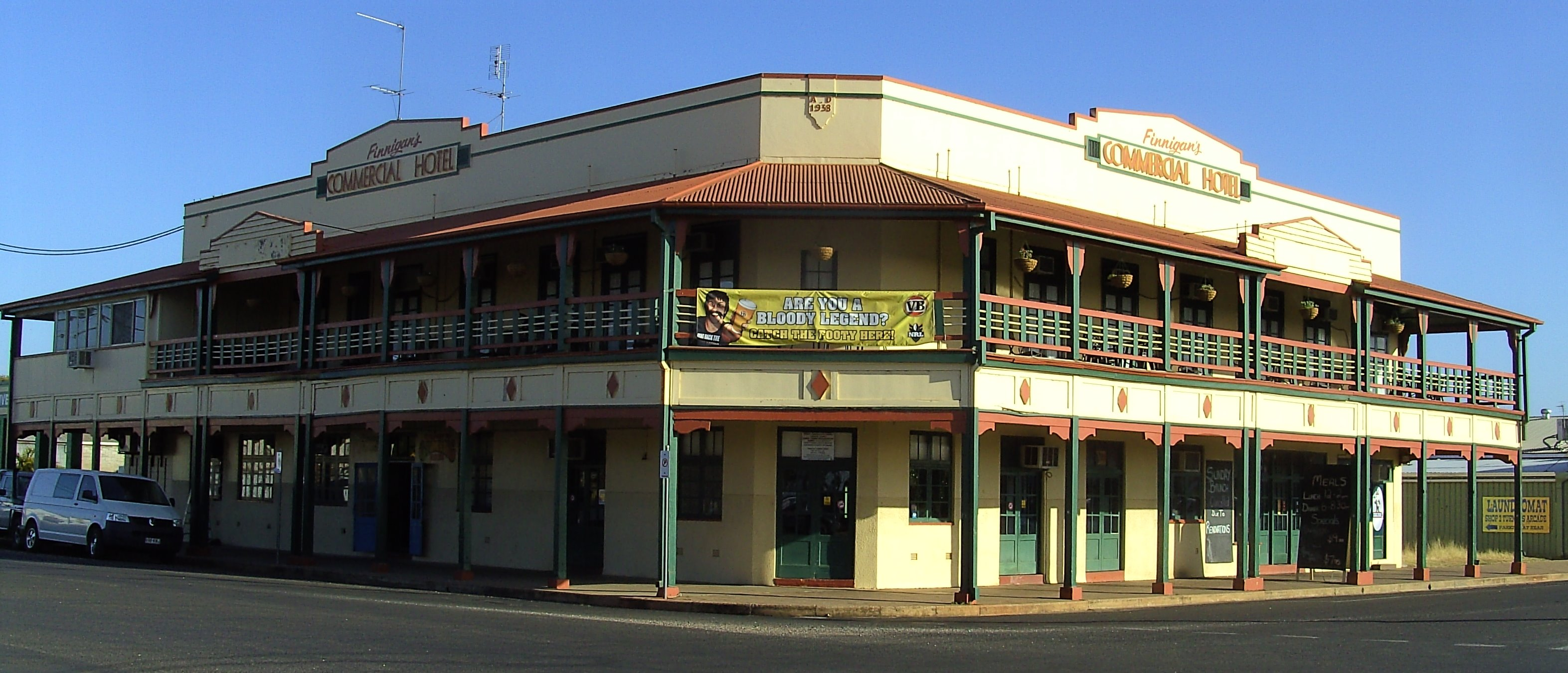 Finnigans Commercial Hotel, Clermont